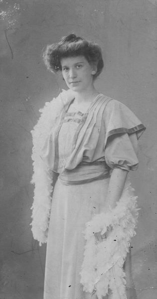 Judith Hörndahl